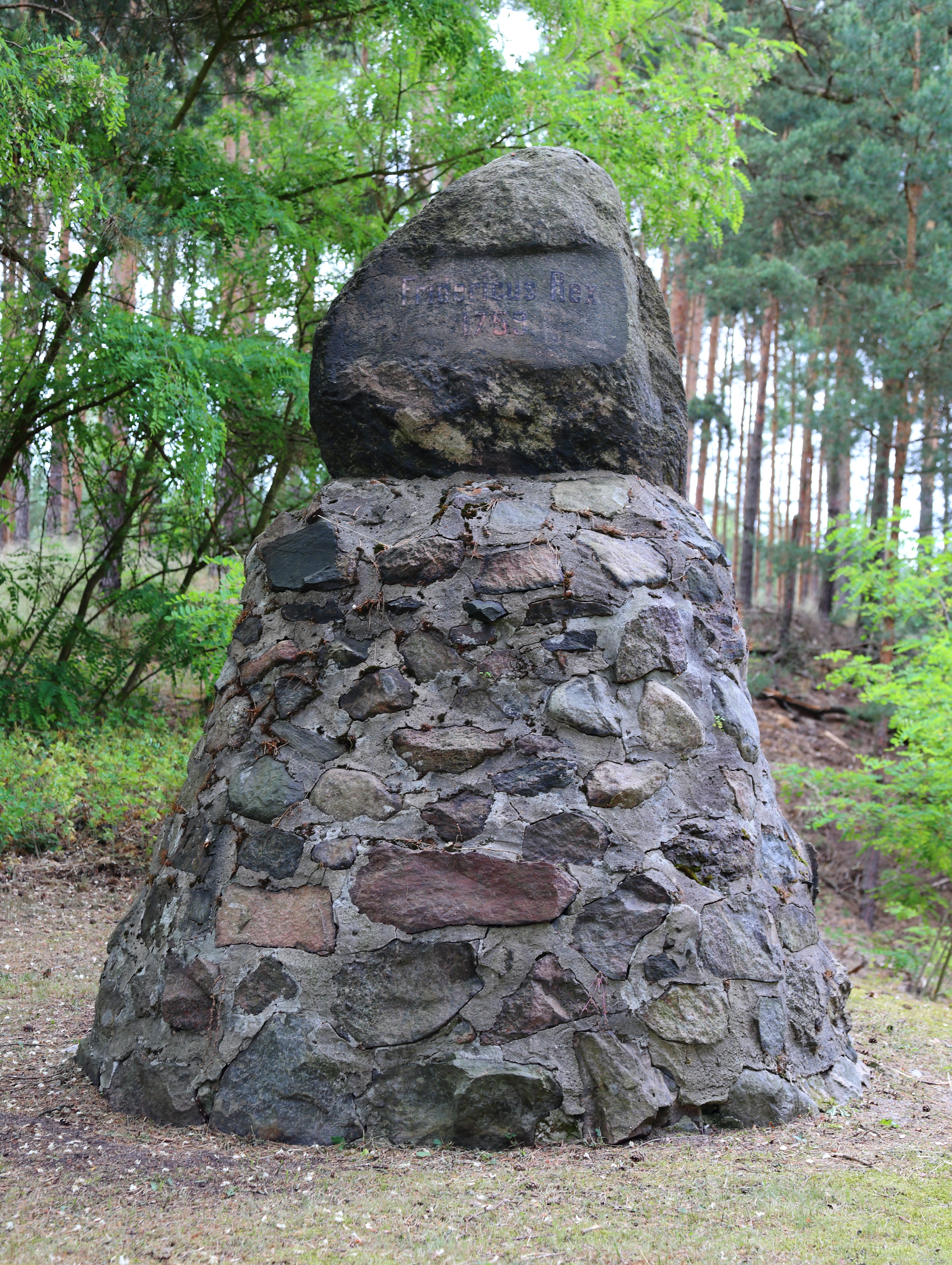 The Frederick Stone (Friedrichstein) near Goschen, district of Lieberose, Landkreis Dahme-Spreewald, Brandenburg, Germany. The memorial for Frederick the Great (Friedrich der Große) was errected in 1912 and is a listed cultural heritage monument.